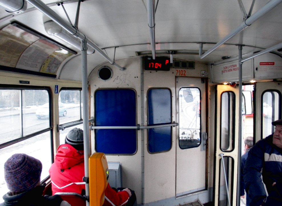 Interior of a Tatra T3SUCS tram manufactured after 1983 in Prague, Czech Republic.